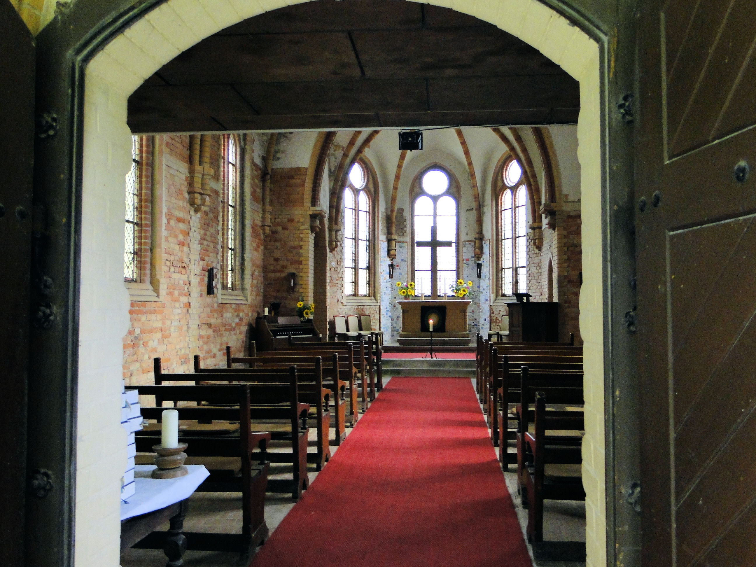 Interior of protestant church in Heiligendamm, district Bad Doberan, Mecklenburg-Vorpommern, Germany